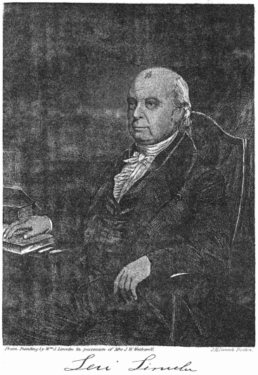 Levi Lincoln, Sr. (1749–1820)